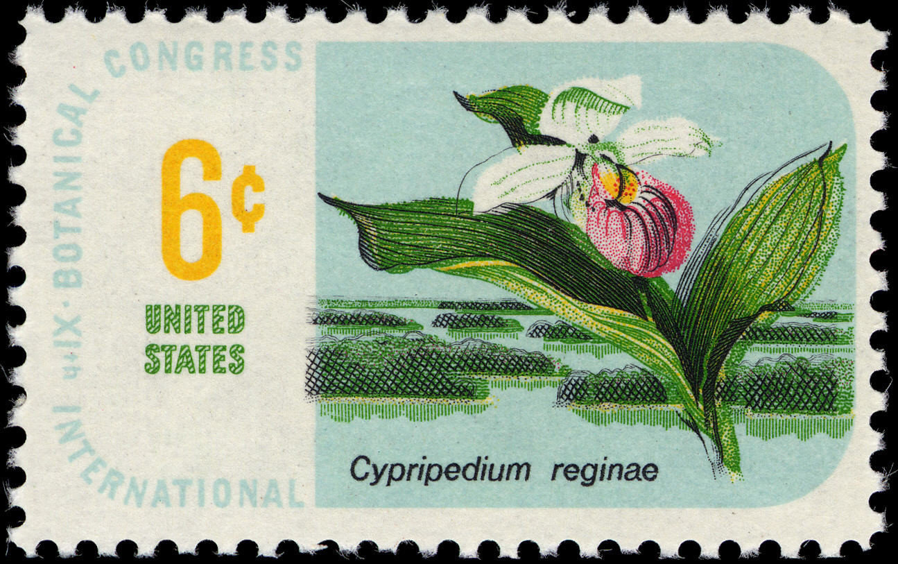 XIth International Botanical Congress - Lady's-slipper (Cypripedium reginae) - 6-cent 1969 issue U.S. stamp.